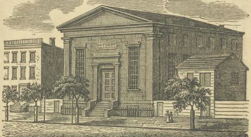 Rutgers Female Institute, nos. 238, 240, 242, 244 Madison-Street, New-York, New-York / printed by William Osborn, 88 William-Street. Nov. 1843.